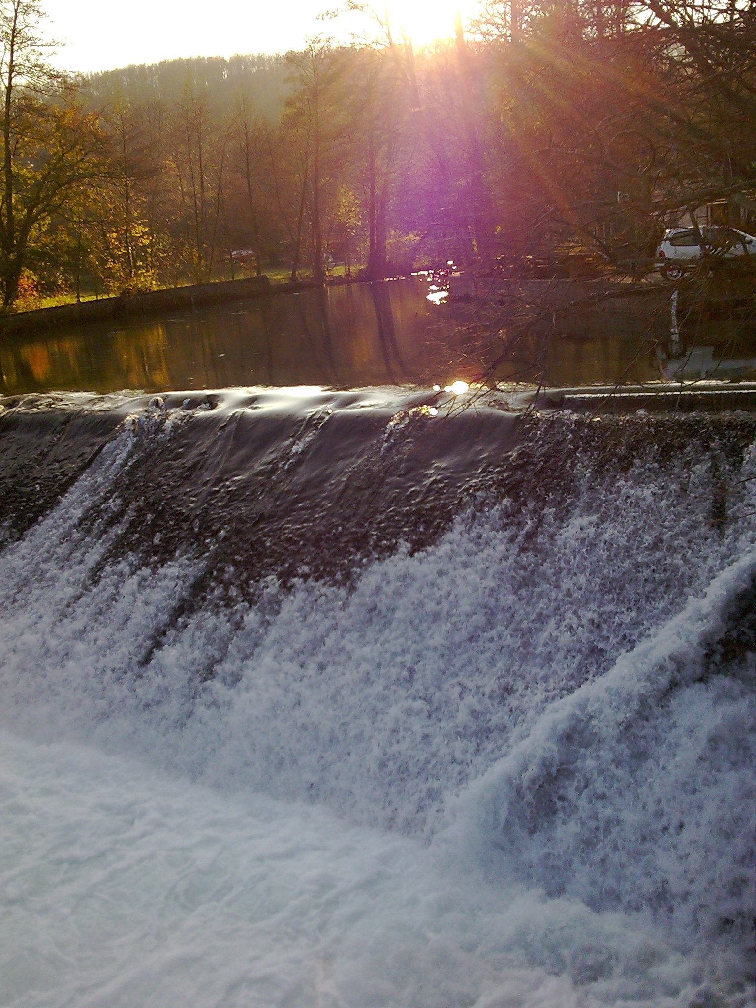 Weir on the Rječina River in the Martinovo Selo.